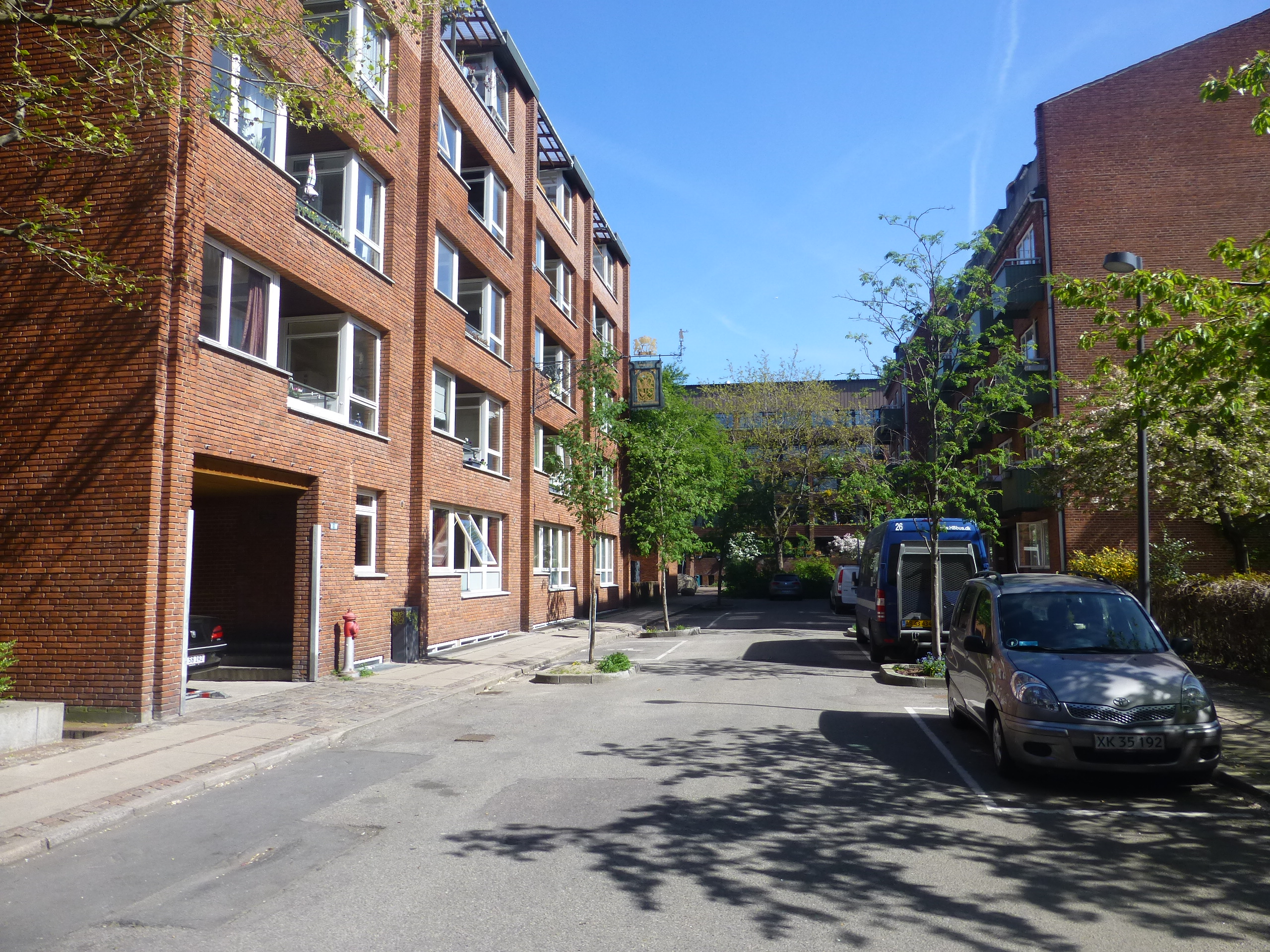 The street Murergade in Nørrebro in Copenhagen.